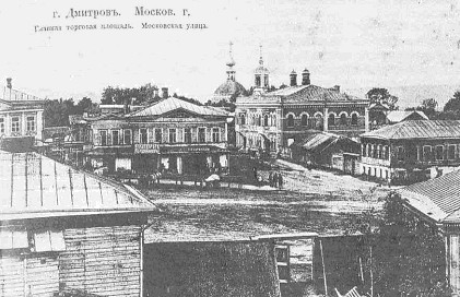 crossroad of the Moscow and Sergyev streets in Dmitrov, Russia (ca. 1900)